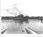 Ailanthus (YN-57) launching at Everett-Pacific Shipbuilding and Dry Dock Co., Everett, WA., 20 May 1943